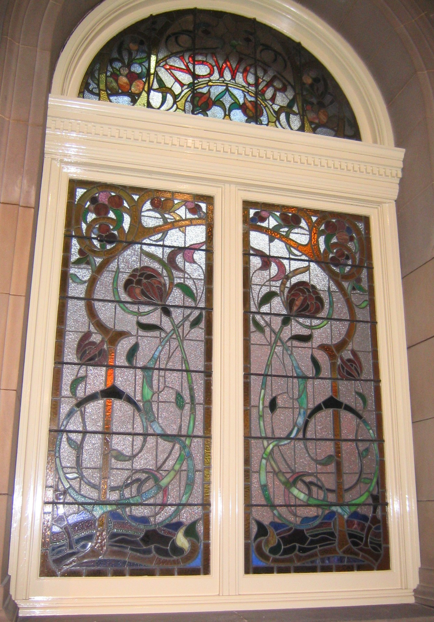 A stained glass window in the old booking hall of Central Station, Sydney Australia. The photo was taken at the 100 year anniversary celebrations of Central Station, the day after the newly restored booking hall was opened.